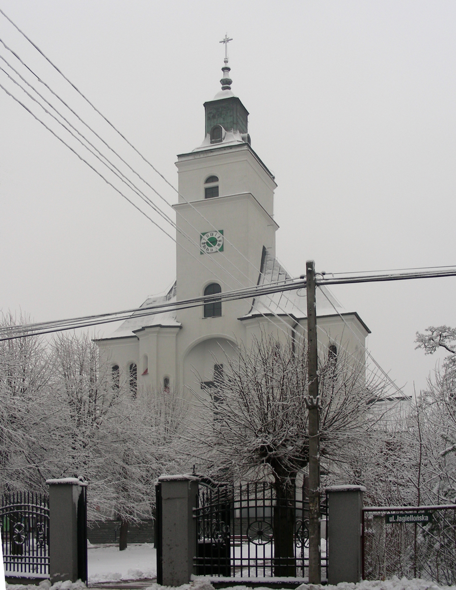 Our Lady of Częstochowa church in Zielonka in winter.